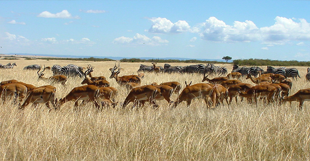 Herds of zebra and impala gathering on Masai Mara plain